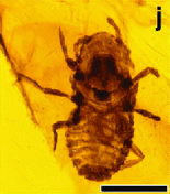 AMBER No. 01 with the specimens of Mesophthirus engeli Gao, Shih, Rasnitsyn & Ren, in Burmese amber. j Holotype specimen CNU-MA2016009. Scale bar, 100 μm.